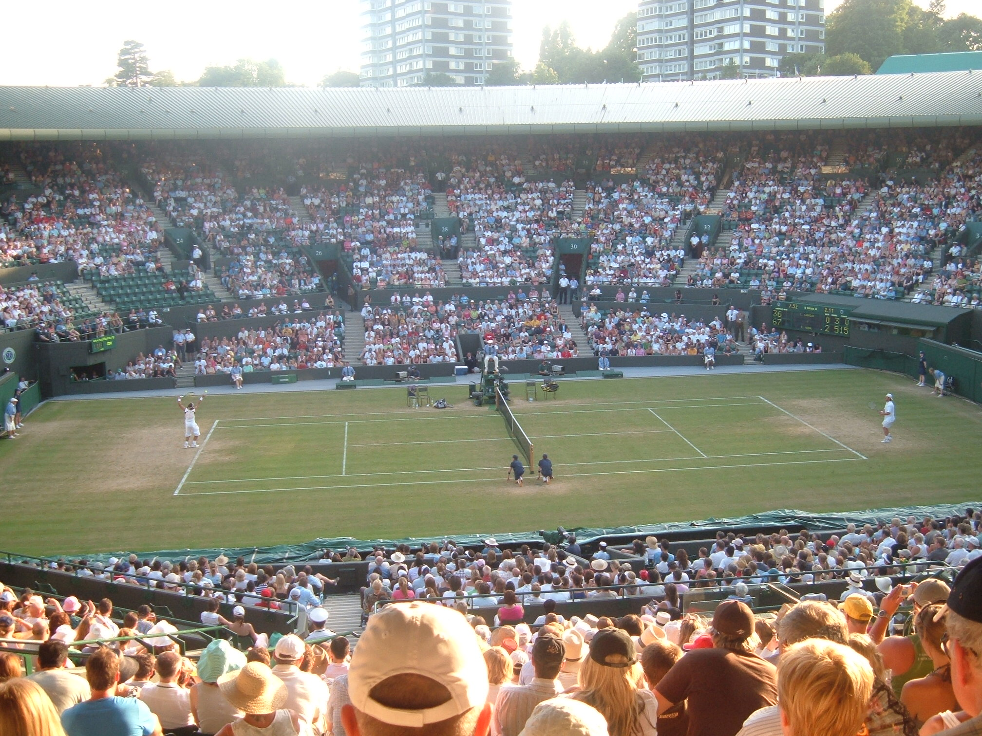 Rafael Nadal (left) serves in the final game on the way to a win on Court No.1 at the 2006 Wimbledon Championships